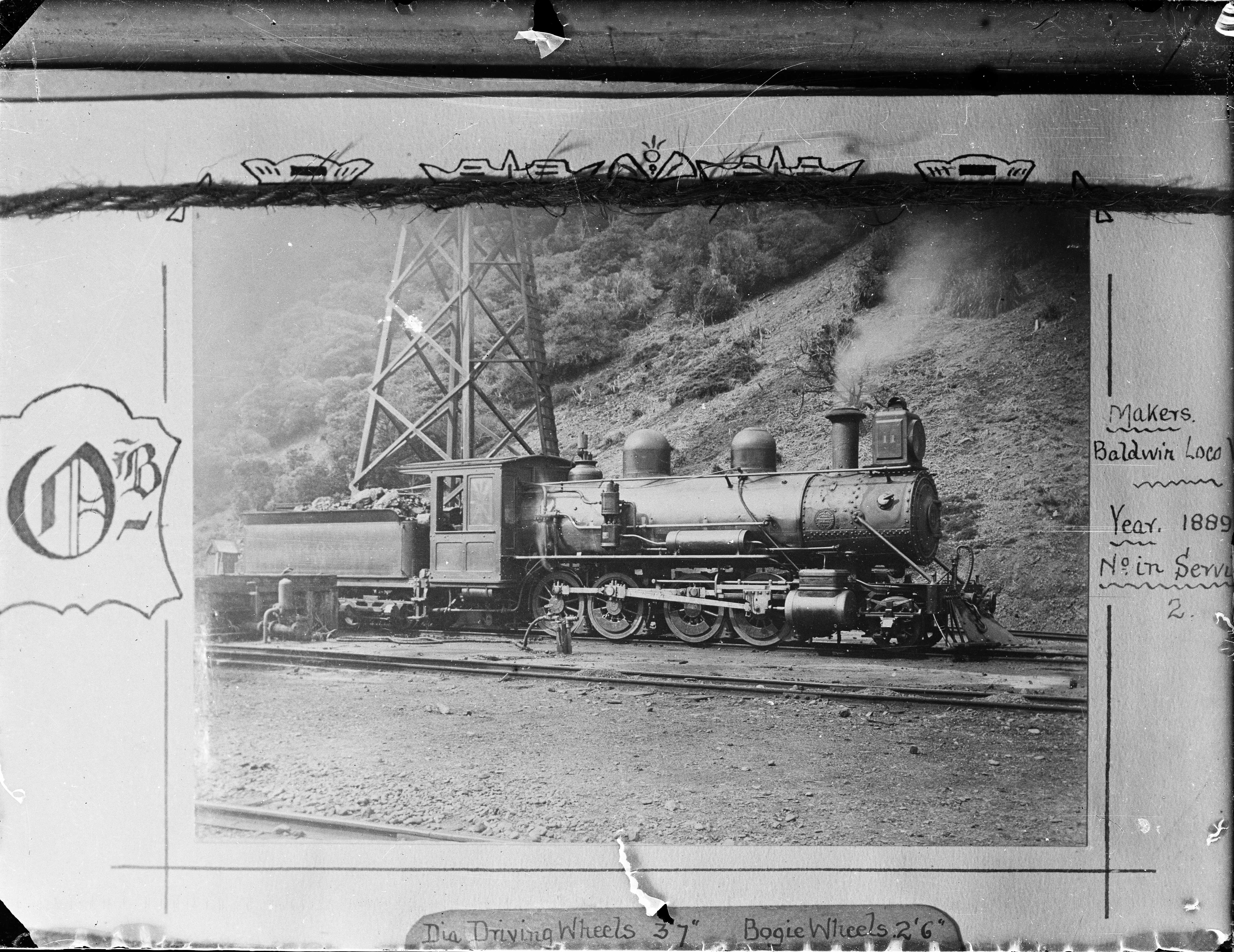 Ob Class steam locomotive, Wellington and Manawatu Railway Co. no 11, 2-8-0 type. This image is taken by Godber from the page in his album Vol 4, p 30 (PA1-o-196). See original glass negative at APG-0269-1/2.